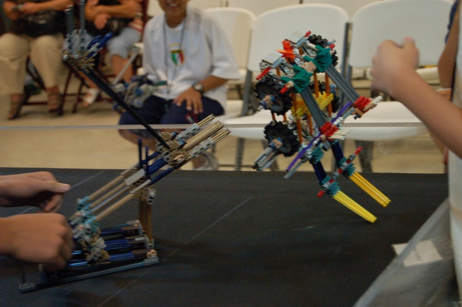 Own photo, taken July 2006. Source